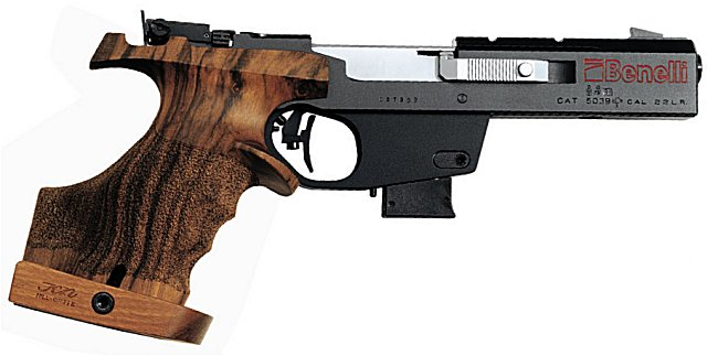 Benelli MP 90 .22